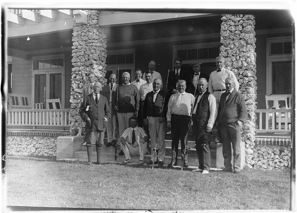 U.S. President Warren Harding and friends at the Cocolobo Cay Club, Florida, USA in 1923 This image from the American Memory Collections is available from the United States Library of Congress's {division_name } under the digital ID hec2013001544.This tag does not indicate the copyright status of the attached work. A normal copyright tag is still required. See Commons:Licensing for more information.